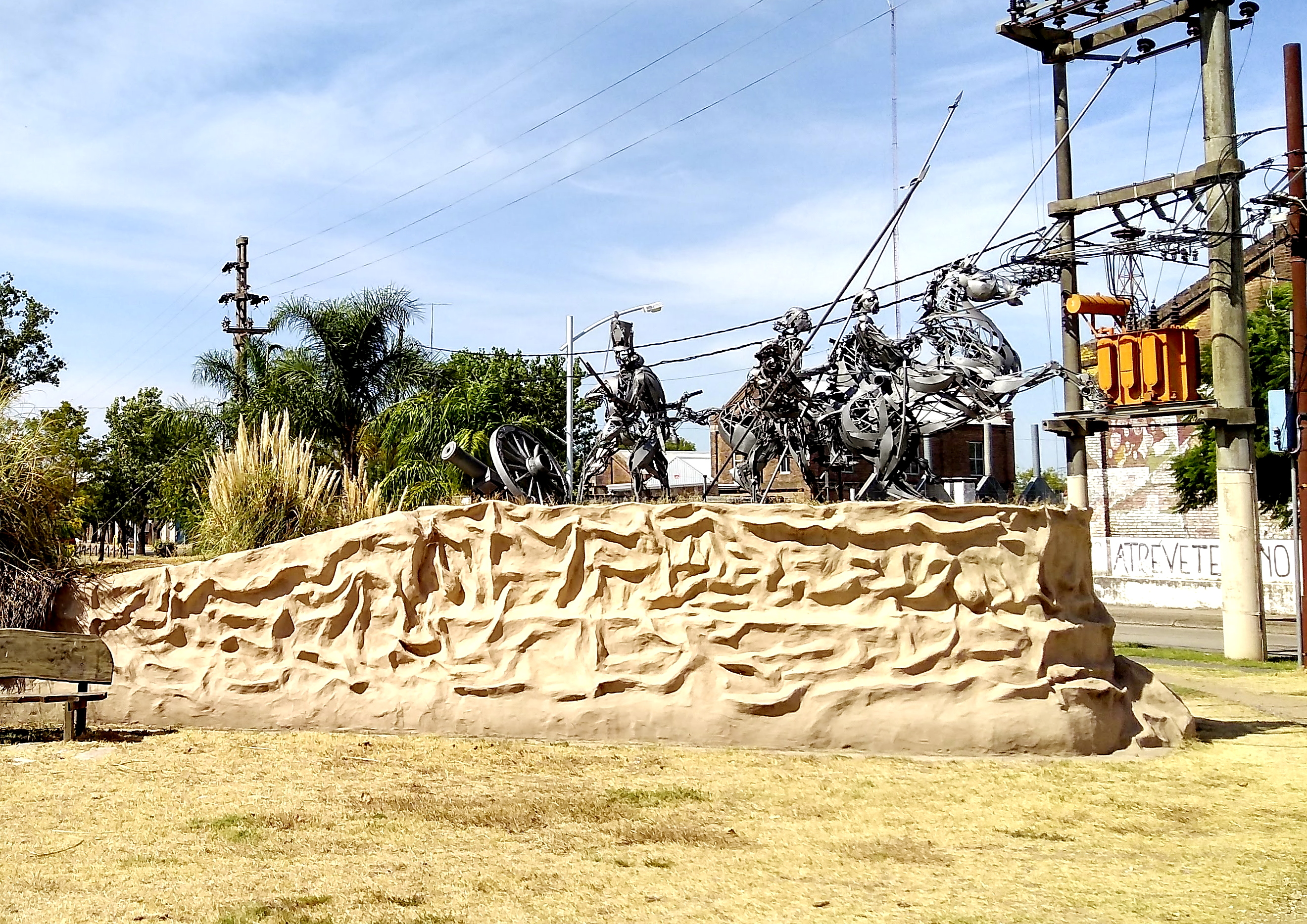 Rebelion of Arequito Memorial, Arequito, Departamento Caseros, Santa Fe, Argentina